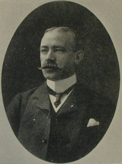 portrait of William George Black (1857-1932), Scottish barrister and antiquarian